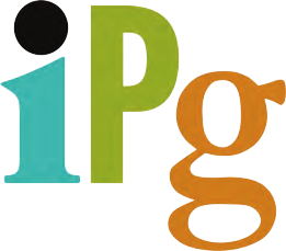 Logo of Independent Publishers Group